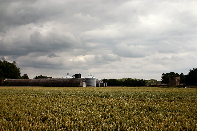 Former airfield buildings at Clapstile Farm. The older buildings formed part of the Mess at the wartime Lavenham Airfield.